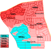 A map showing the waves of urban development in Sorrento, a suburb of Perth. Assembled by comparing various UBD and MSD directories over the period.